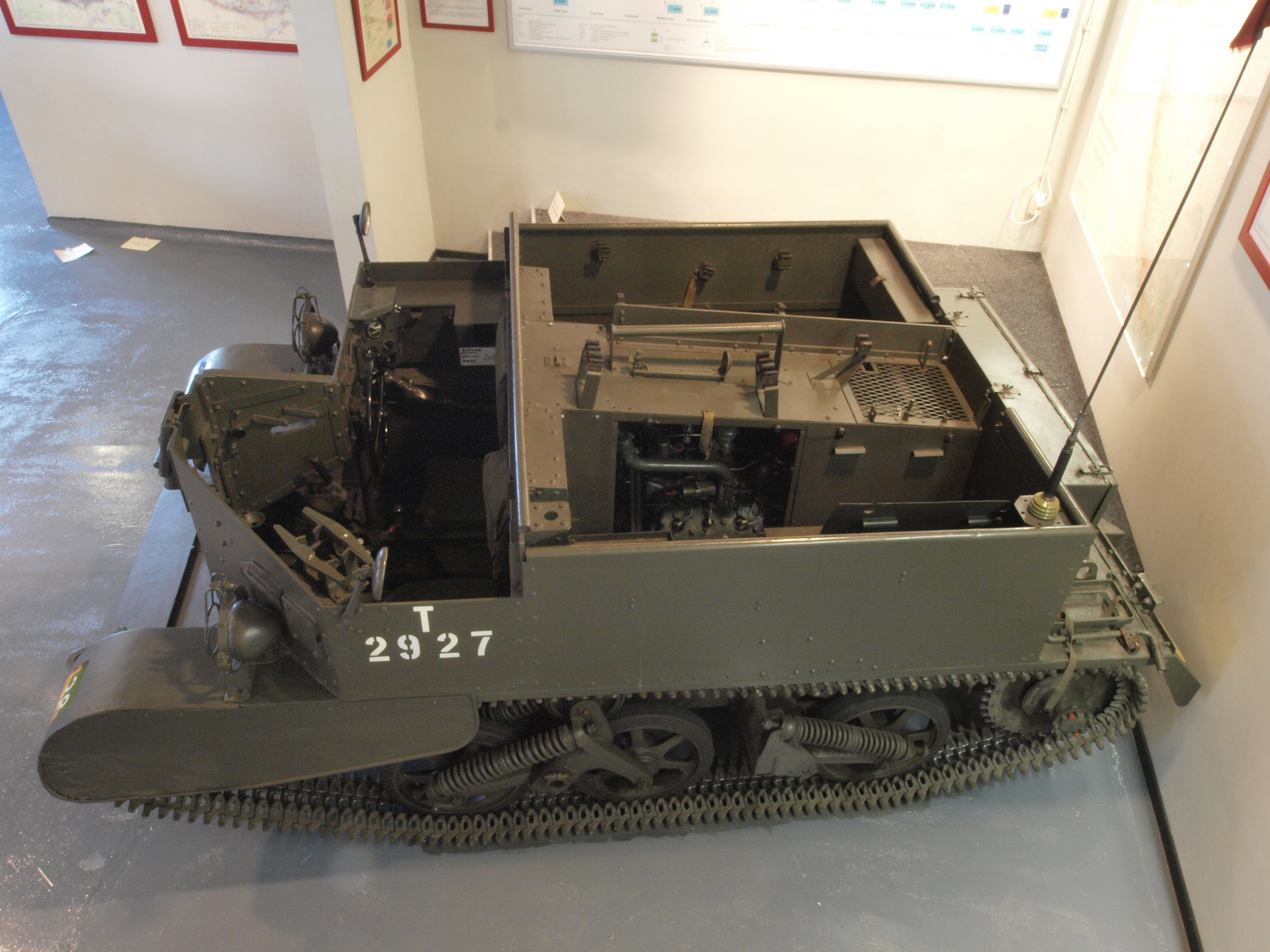 Universal Carrier Mk II of the dutch cavalry museum.